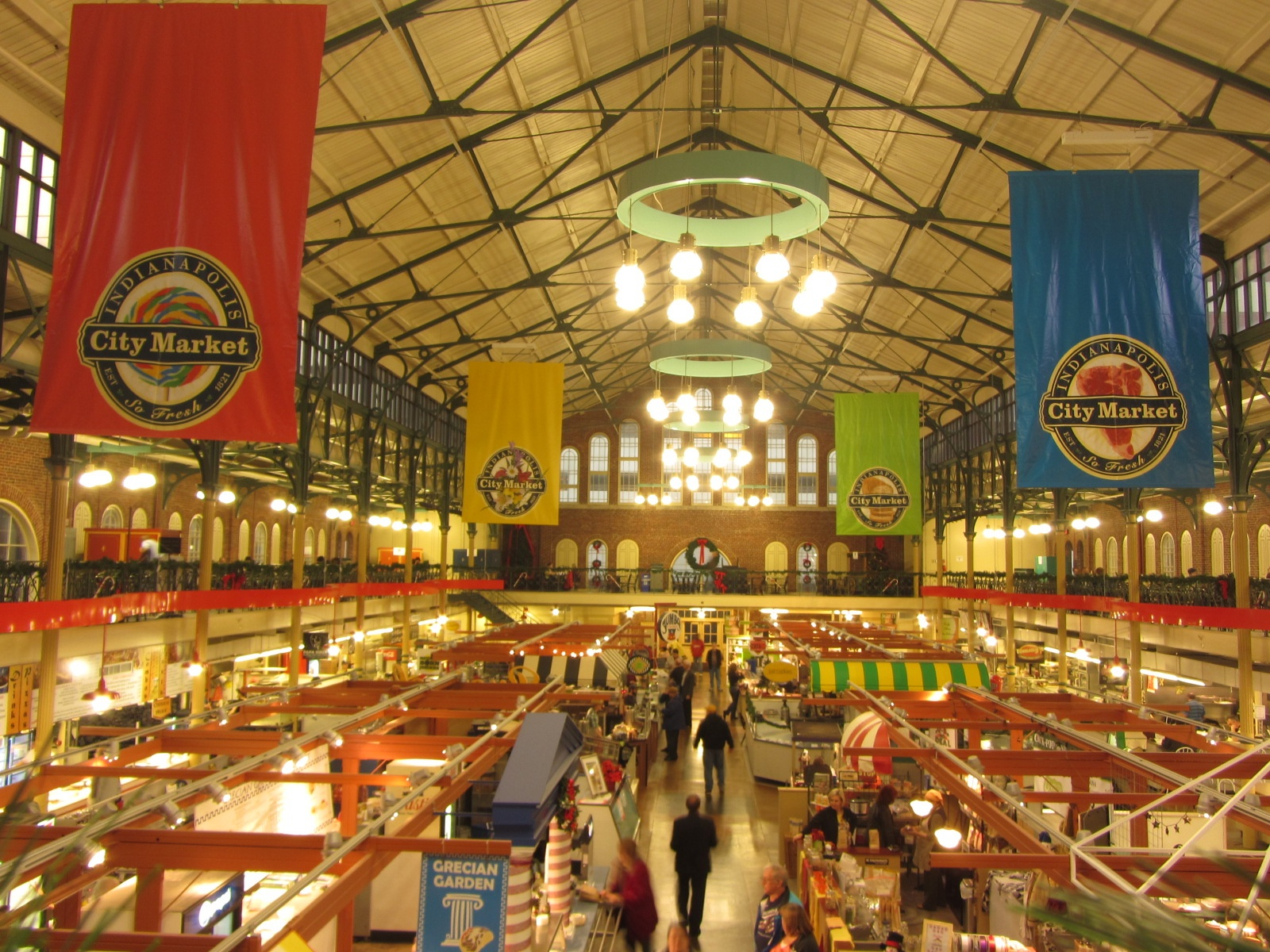 This photo was captured on the mezzanine level of the Indianapolis City Market, looking north across the building.